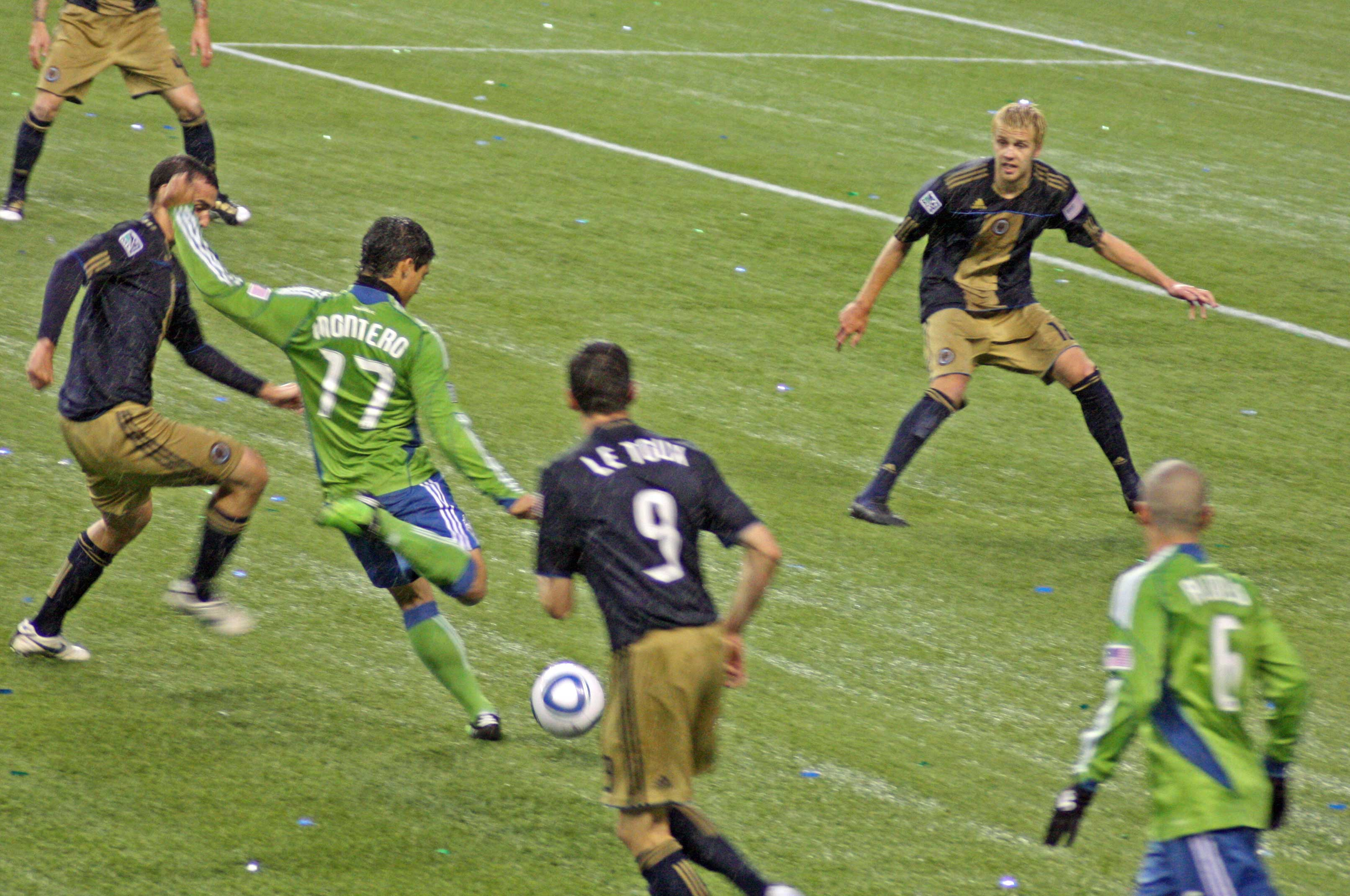 Fredy Montero of the Seattle Sounders FC shoots